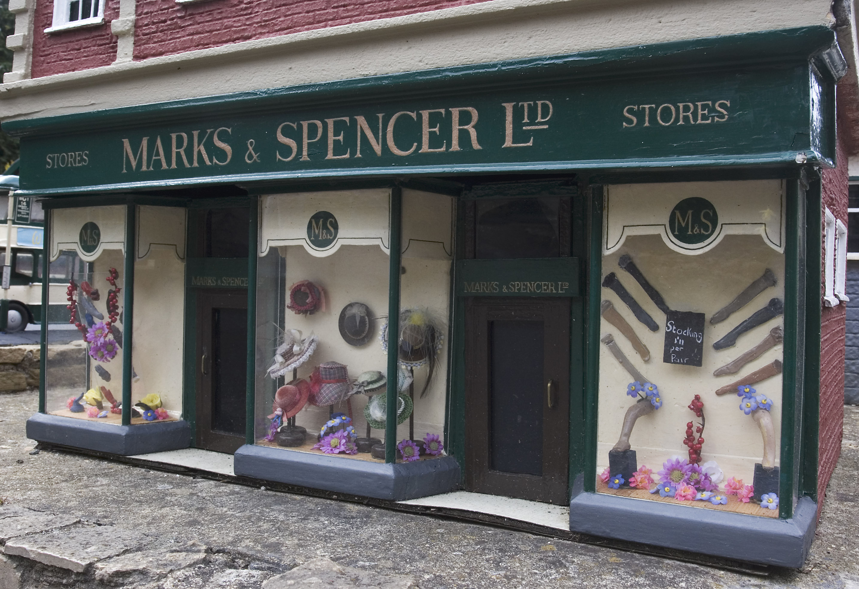 Marks and Spencer shop, Bekonscot